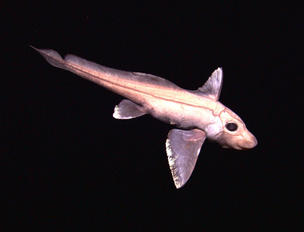 Chimaera species (family: Chimaeridae) from Indonesia